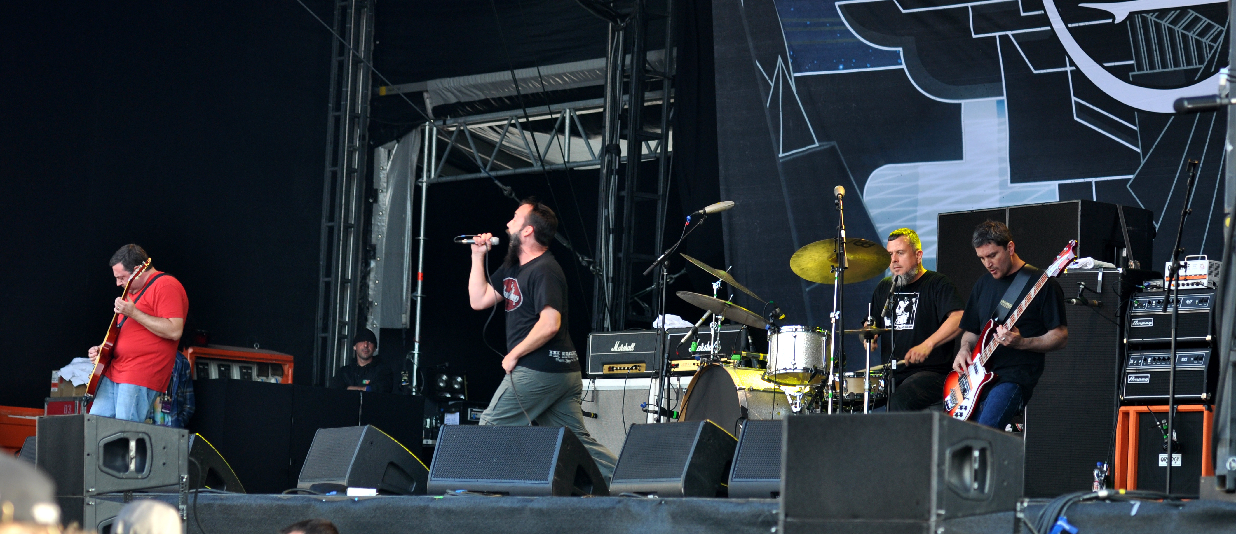 US stoner rock band Clutch at Rock am Ring 2013